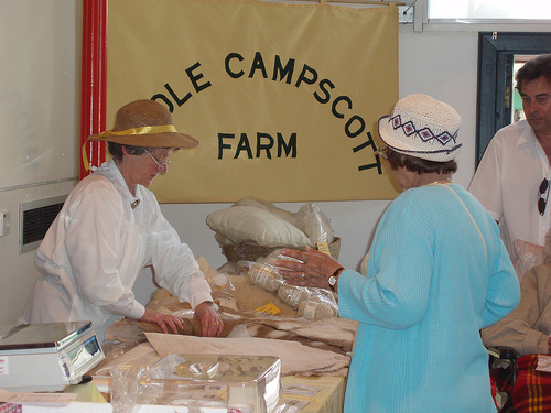 Image created by User:Frankpearson and released under the licence above.